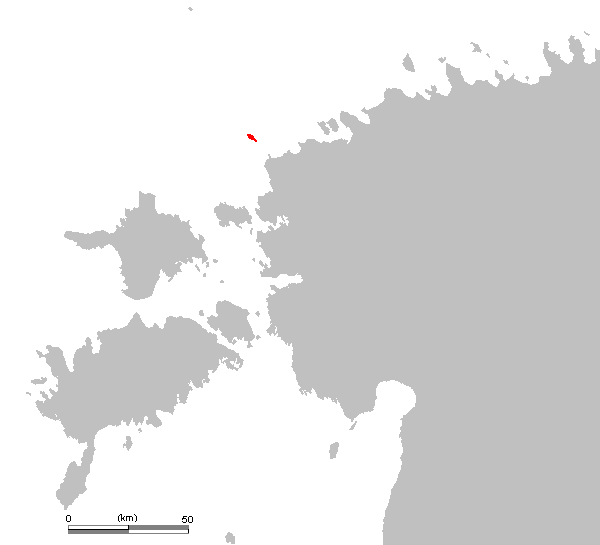 Osmussaar on the map of Estonia.